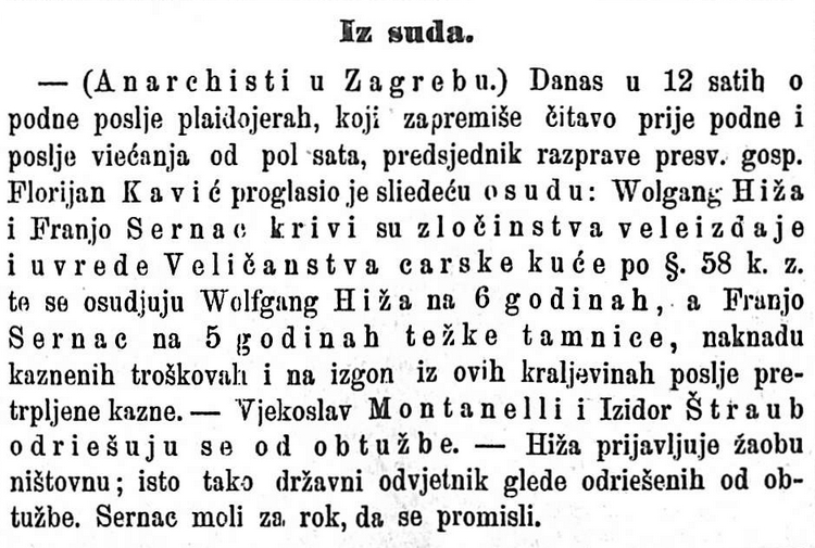 Narodne novine, 1884